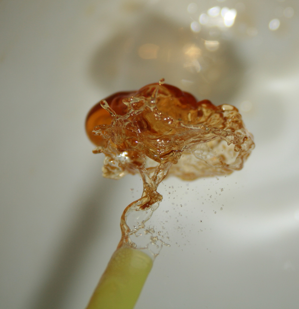 Example of high-speed photography. Coffee blown out of a straw.